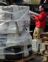 A photograph of computer recycling efforts. Retrieved from for use in Computer Recycling.